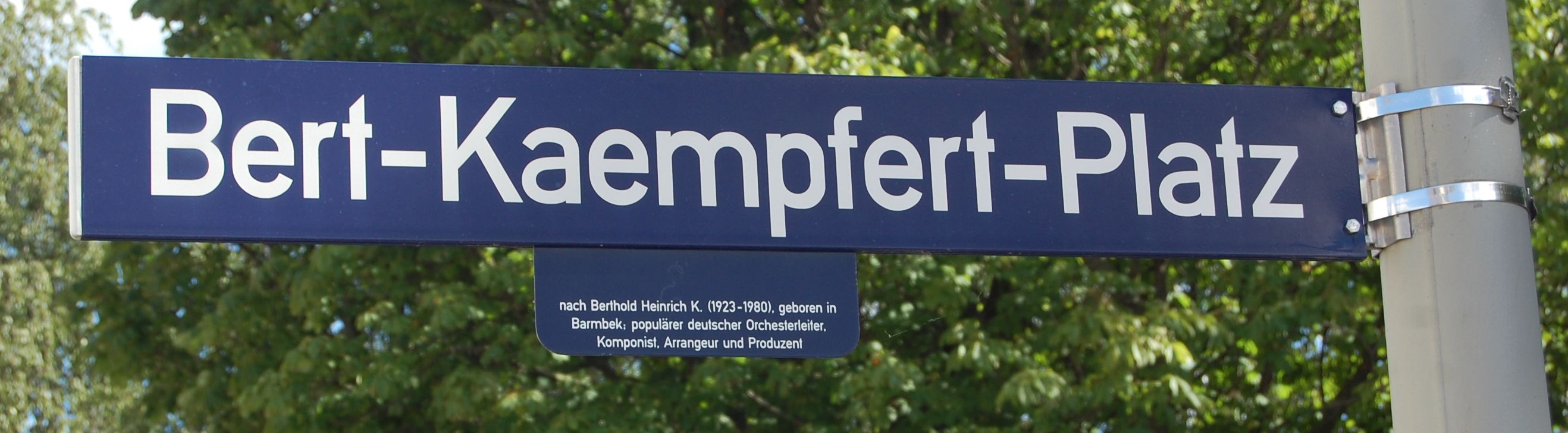 Street nameplate for Bert-Kaempfert-Platz, Hamburg, Germany, commemorating Bert Kaempfert.